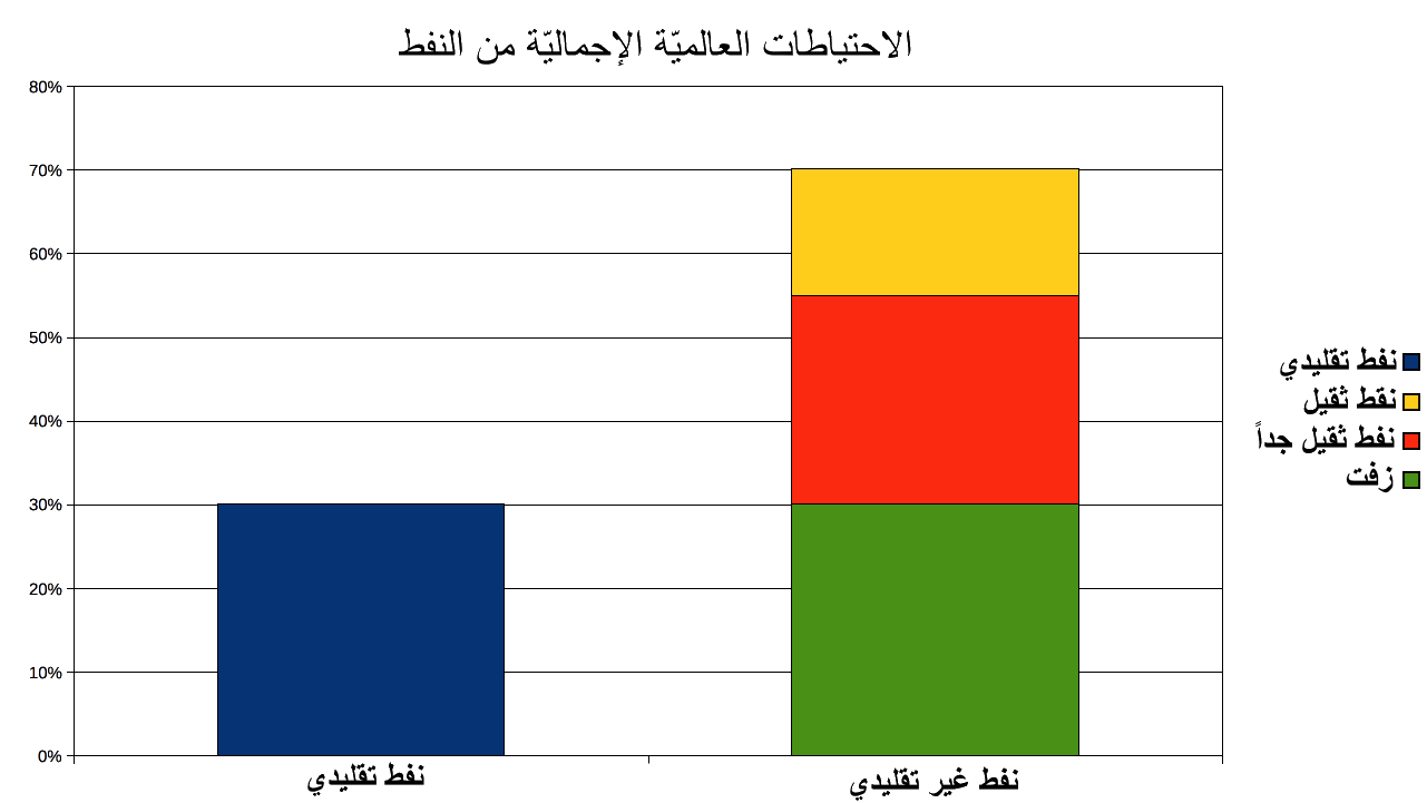 Comparison of conventional and unconventional oil reserves at the global level.